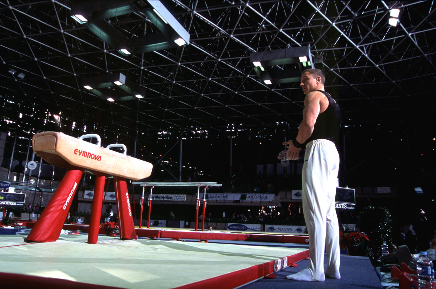 Dimitri KARBANENKO European Club Championship NANTES (France) 08-09/12/2001